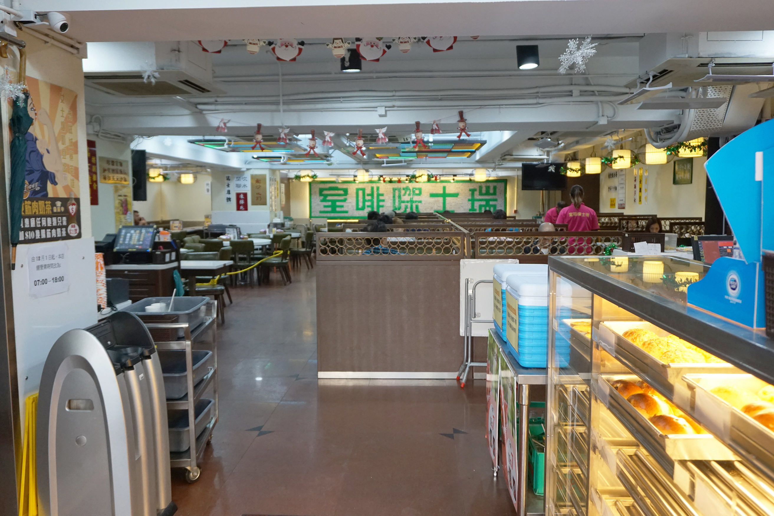 Swiss Cafe in Hong Kong.